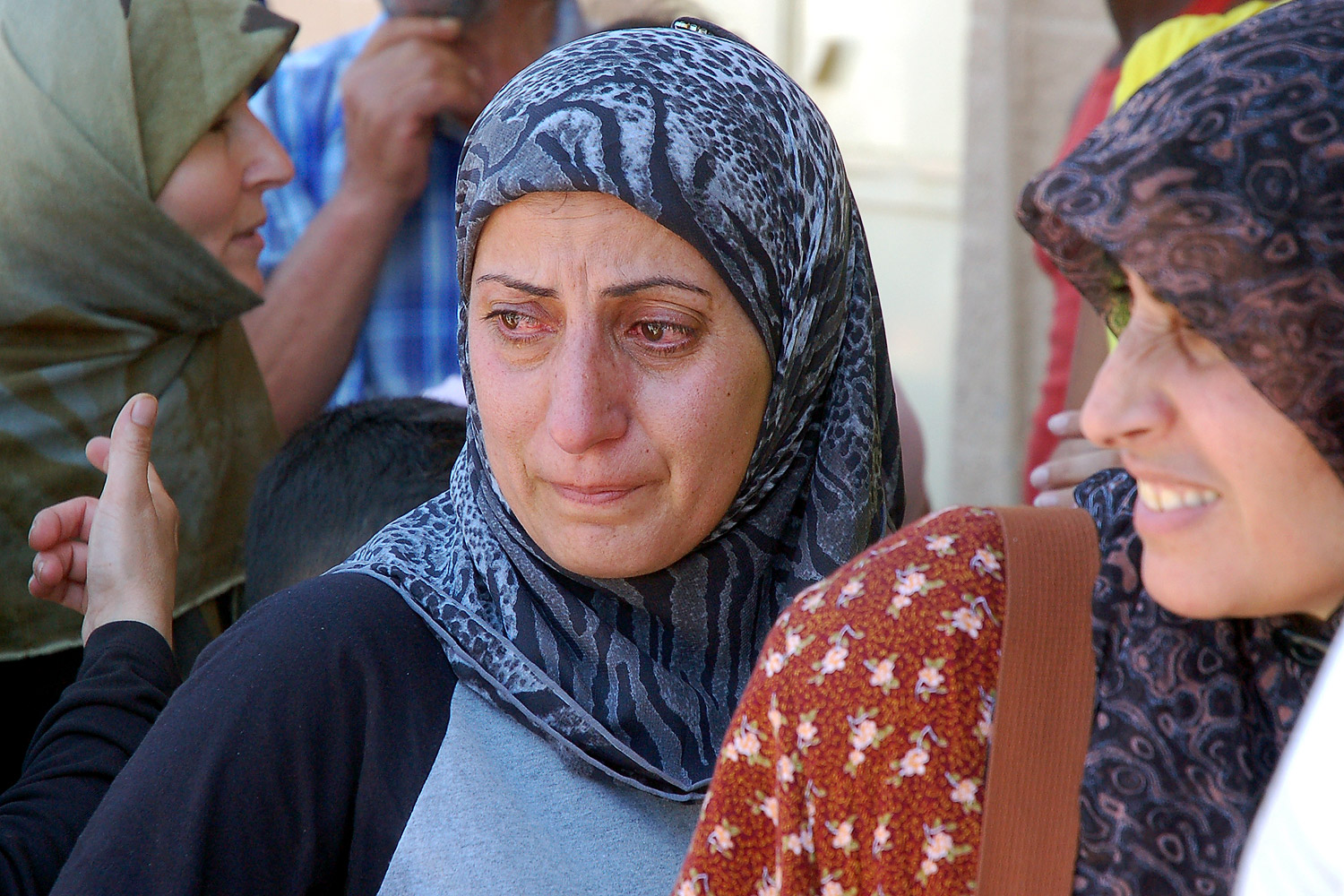 A woman with red eyes. Described on flickr as "I think she's a US citizen who'd just escaped from the village of Yaroun, very close to the border with Israel, after two weeks of being bombed by Israeli forces. I can't be certain though, as I judged her too distressed to interview."